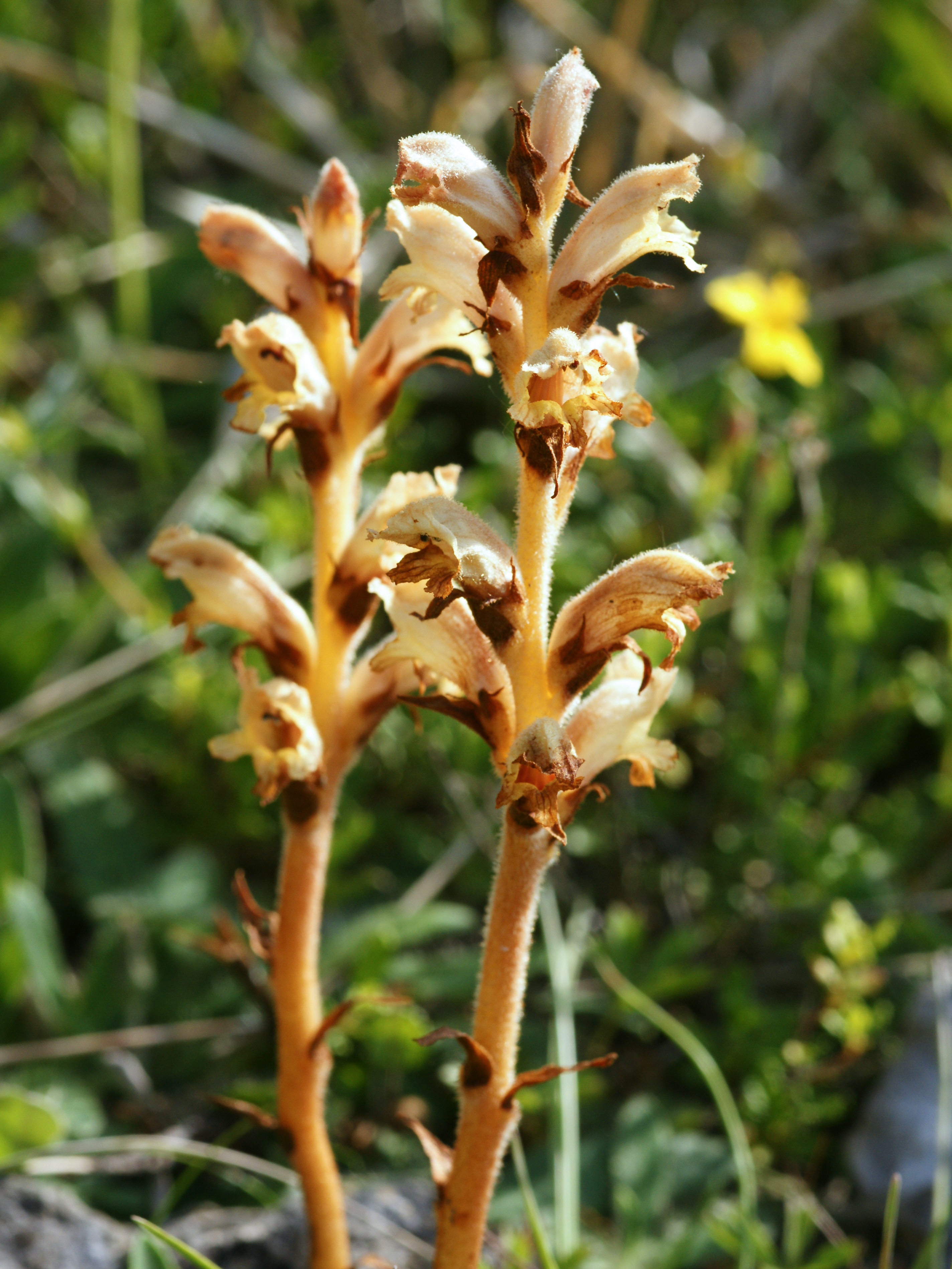 Germander Broomrape close to Nismes